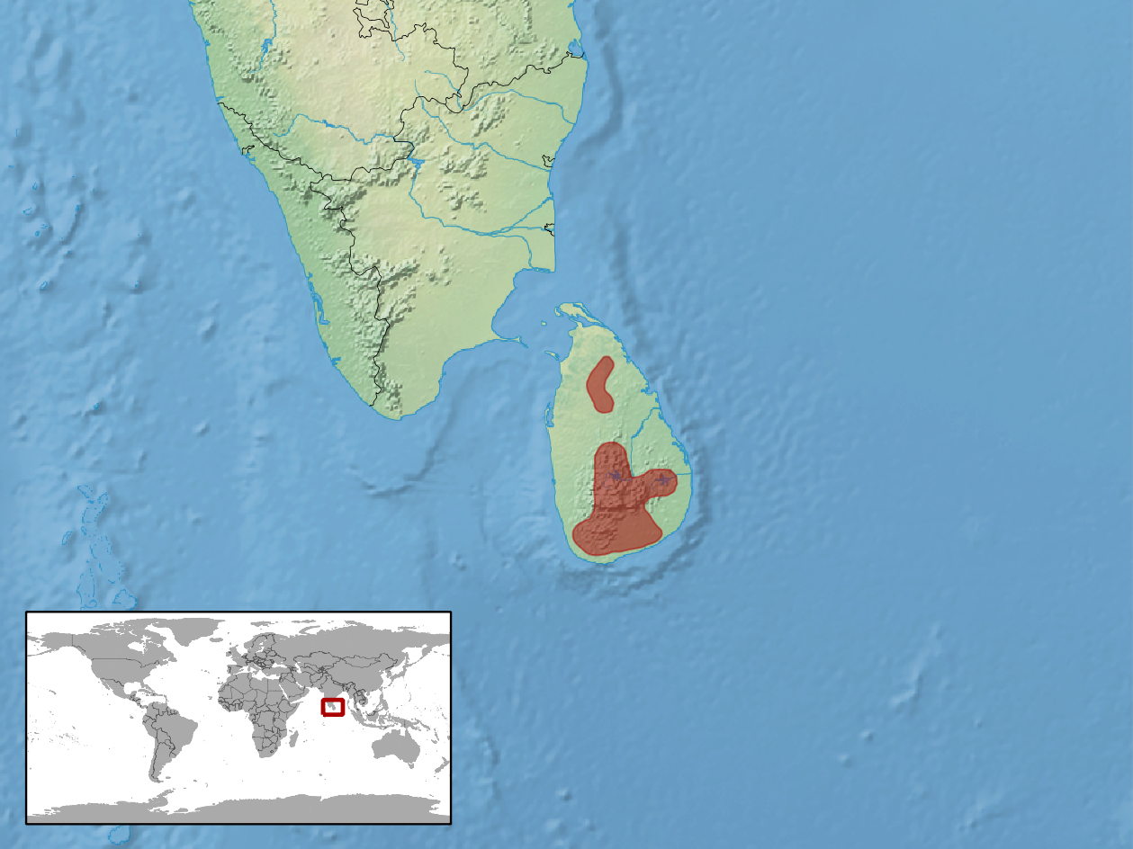 geographic distribution of Geckoella triedrus (Native: Sri Lanka)